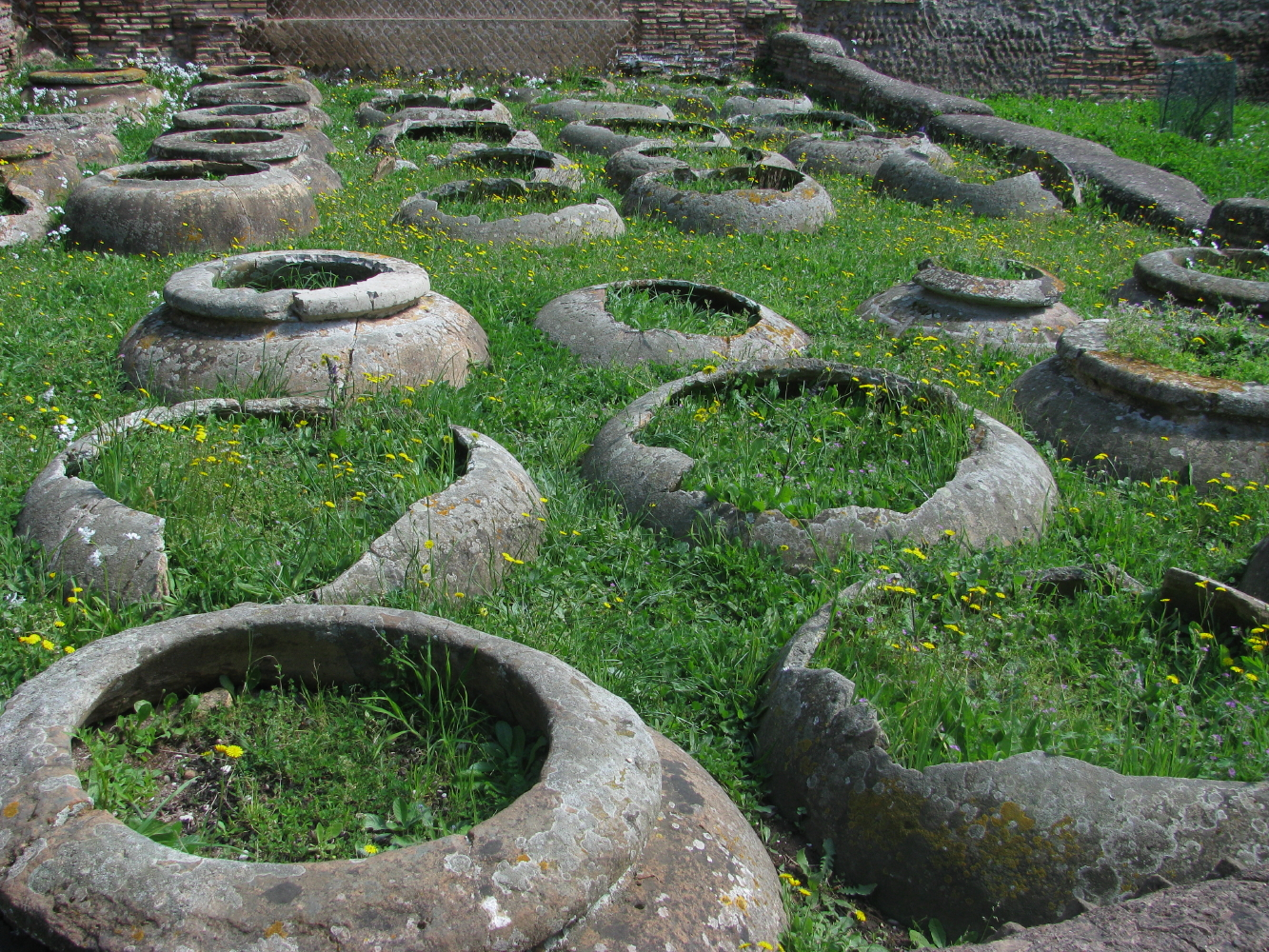 Storing-room with orci (regio I, insula IV). Ostia Antica, Latium, Italy.